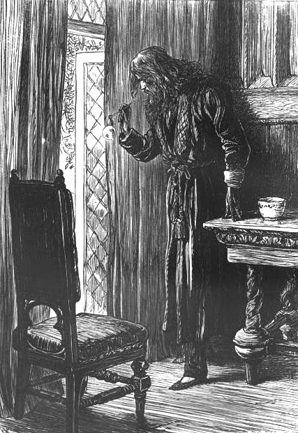 Illustration for Nathaniel Hawthorne's The House of the Seven Gables from an edition published in 1875 by James R. Osgood and Company. This image depicts a scene in Chapter XI: "The Arched Window." Here, Clifford Pyncheon is overcome with a regressive, childlike need to blow bubbles. Within moments, his rival Judge Pyncheon passes outside and the two characters meet for the first time in the novel.